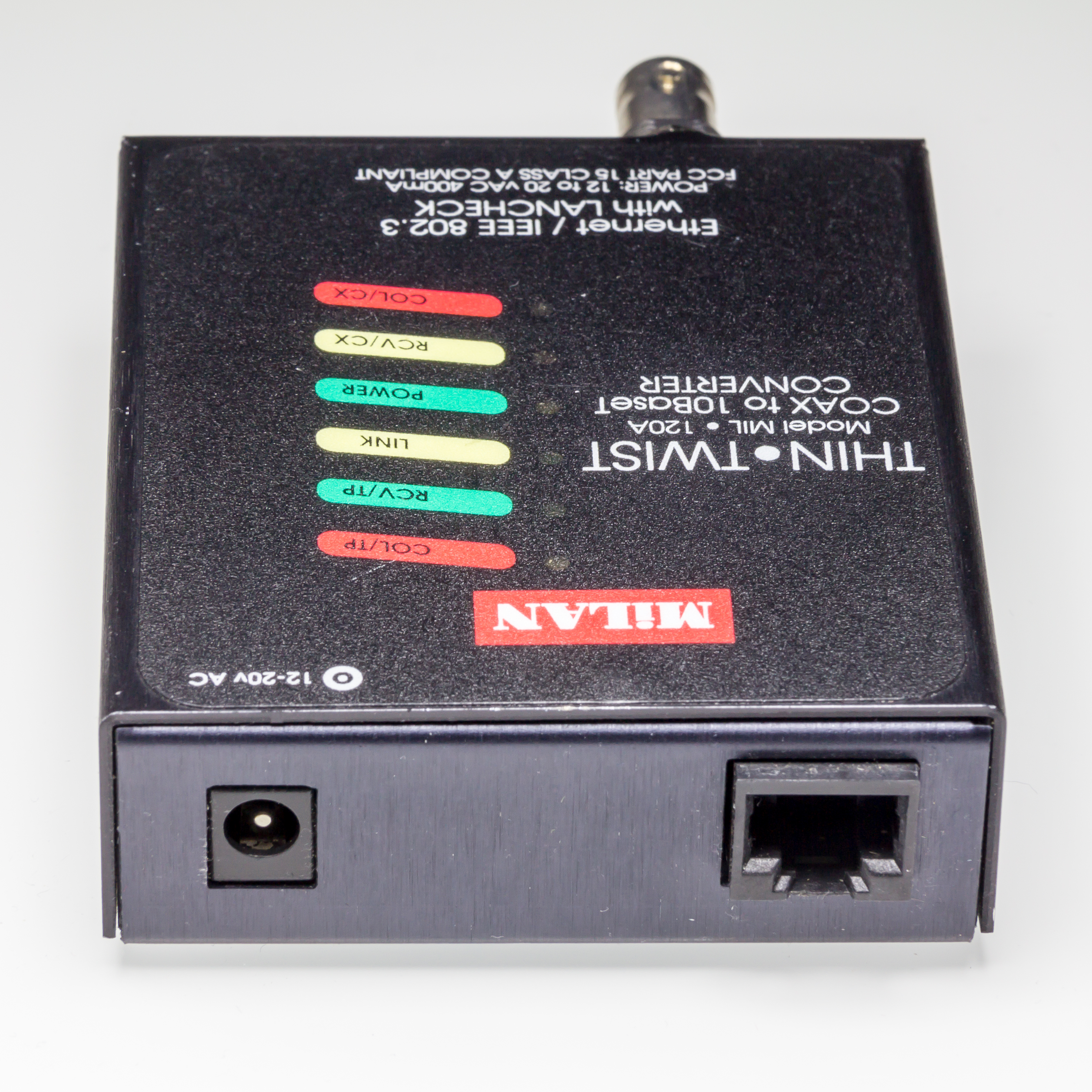 Coax to 10BaseT Converter - Milan Model MIL 120A. Size of the box: 90*75*25 mm